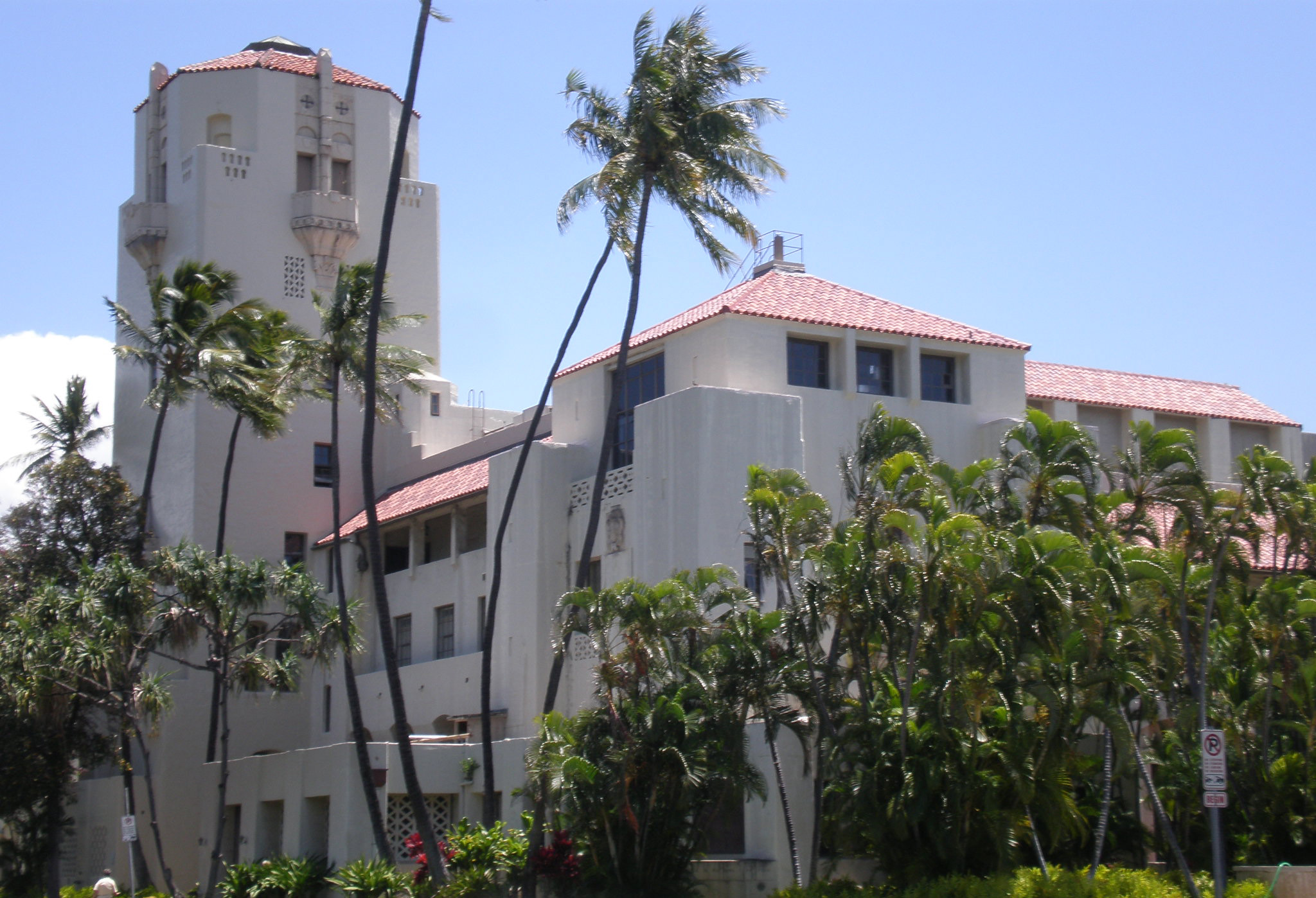 Front corner view of Honolulu Hale, the City Hall of Honolulu, Hawaii.